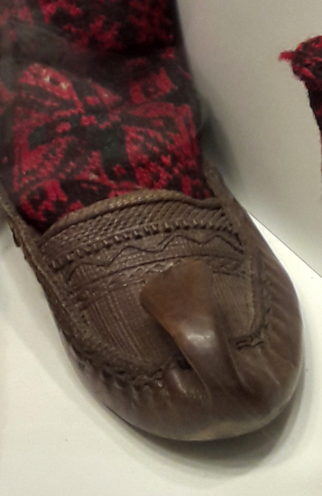 Footwear called opanci and wool socks, part of the ethnological collection of the Local Museum in Knjaževac.